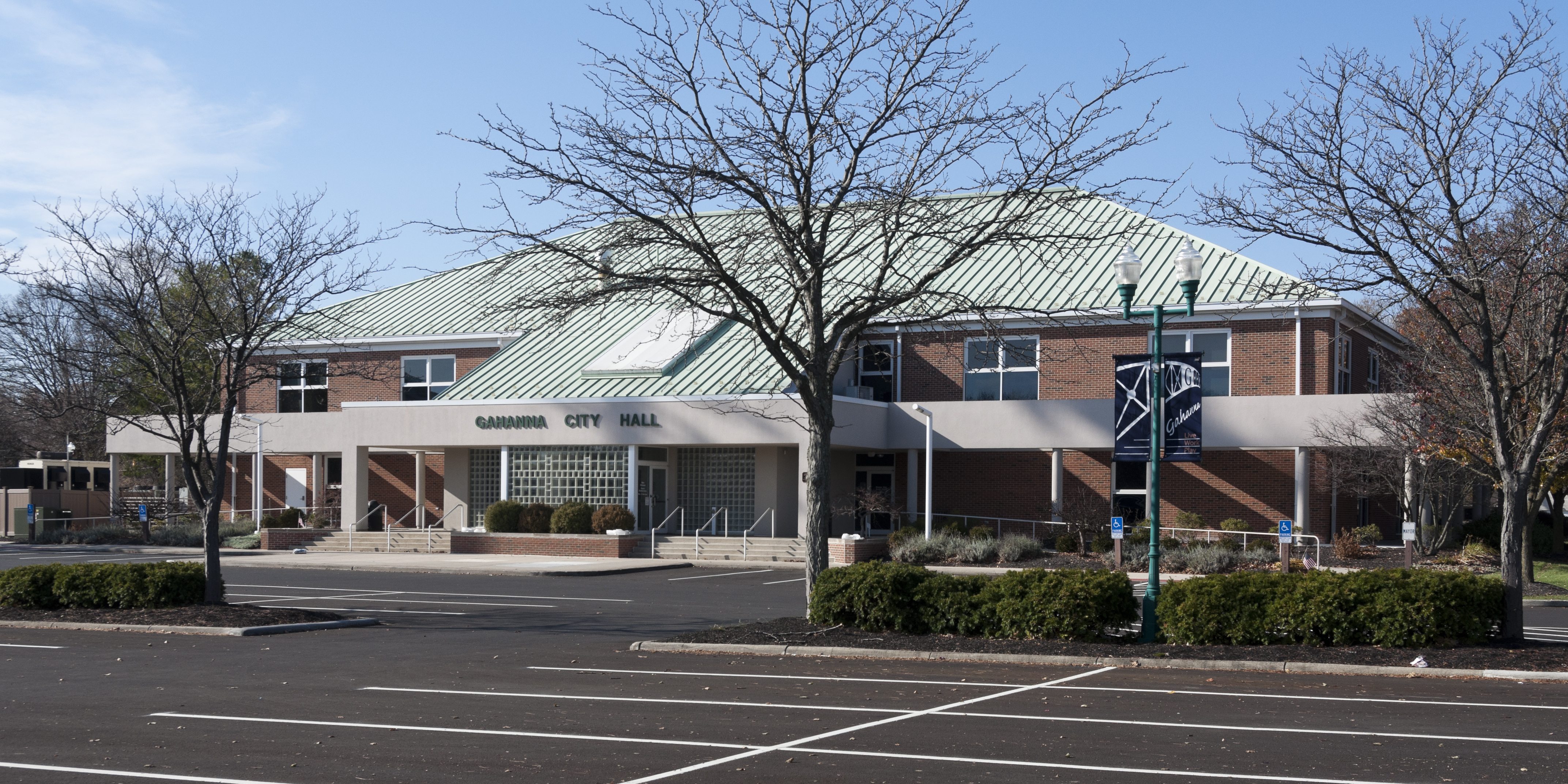 The City Hall of Gahanna, Ohio taken from the East-Southeast. This building is also the Gahanna City Clerk of Courts for the city.